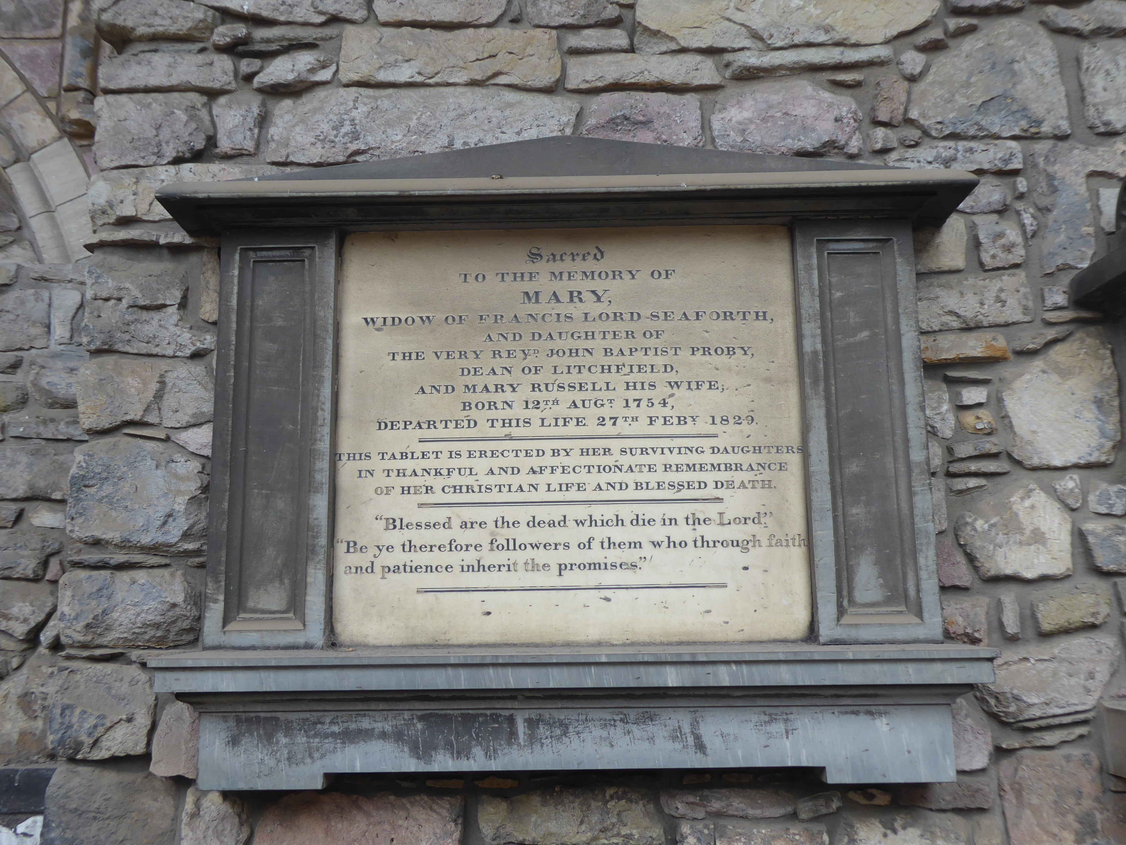 Holyrood Abbey, Edinburgh - Tomb of lady Mary Proby